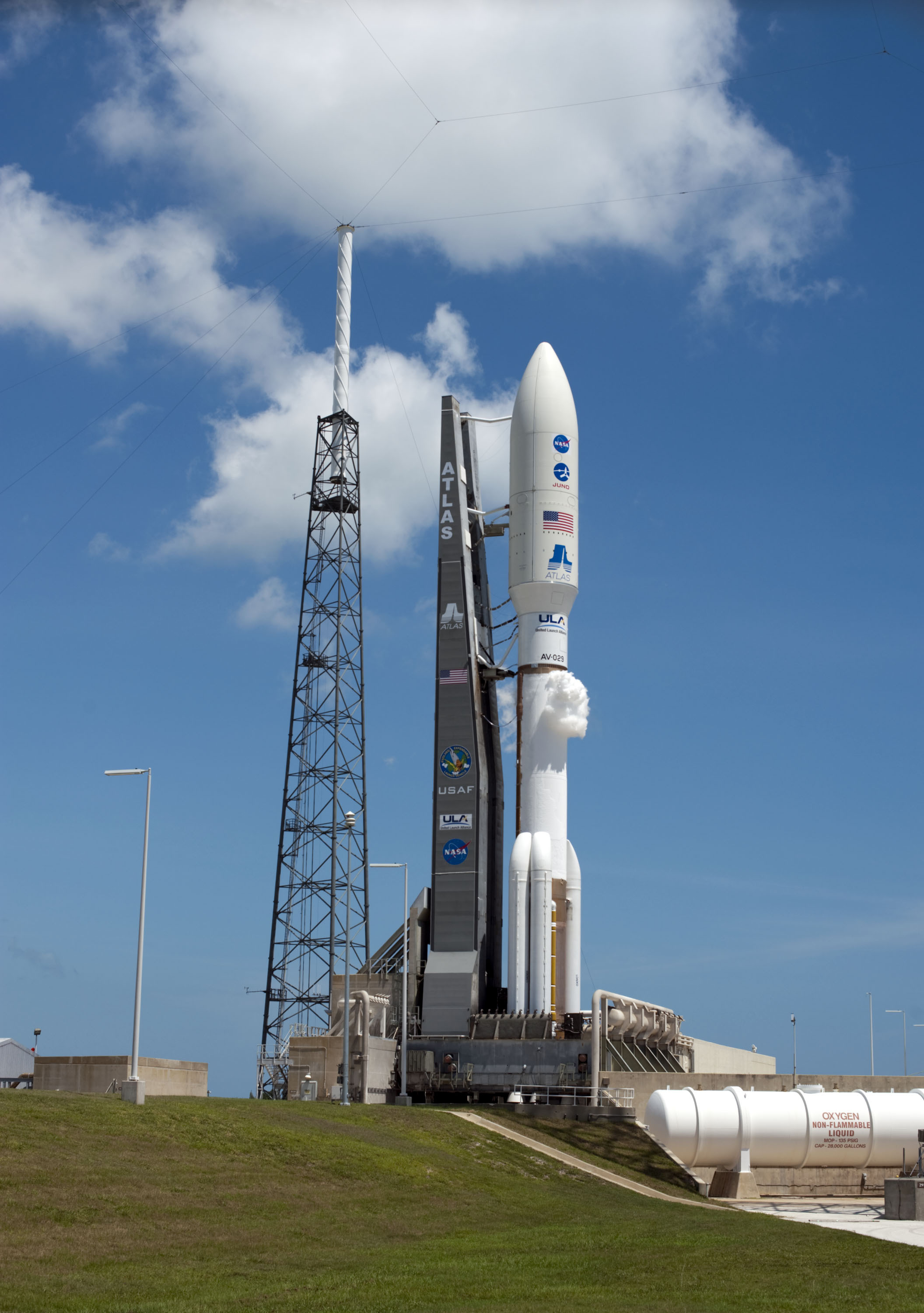 CAPE CANAVERAL, Fla. -- NASA's Juno planetary probe, enclosed in its payload fairing, is moments away from liftoff atop a United Launch Alliance Atlas V rocket. Leaving from Space Launch Complex 41 on Cape Canaveral Air Force Station in Florida, the spacecraft will embark on a five-year journey to Jupiter. Liftoff was at 12:25 p.m. EDT Aug. 5. The solar-powered spacecraft will orbit Jupiter's poles 33 times to find out more about the gas giant's origins, structure, atmosphere and magnetosphere and investigate the existence of a solid planetary core. For more information, visit